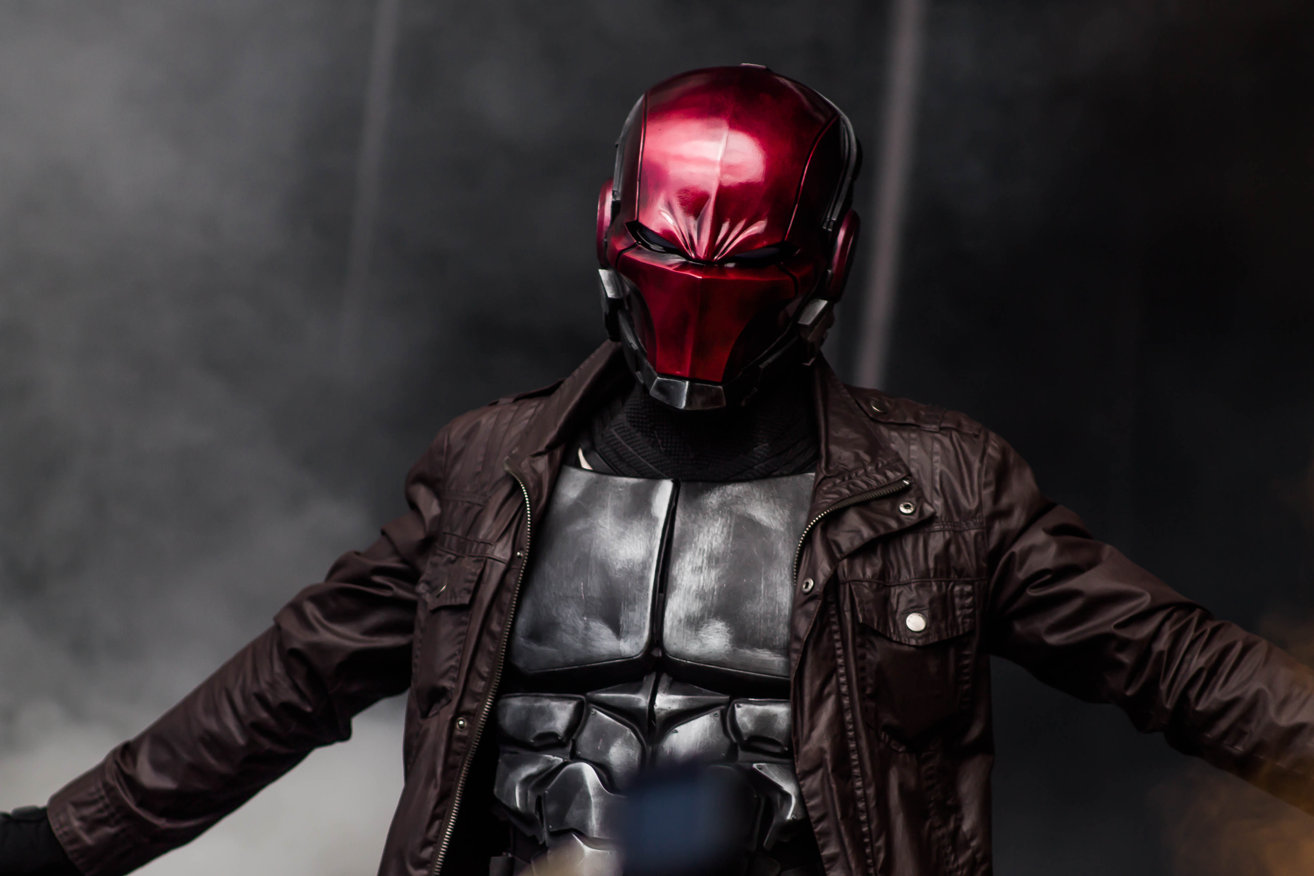 Cosplayer as Red Hood